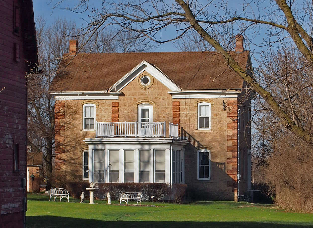 Strunk–Nyssen House, Chaparral Ave, Jackson Township, Minnesota, USA. Viewed from the east-northeast.